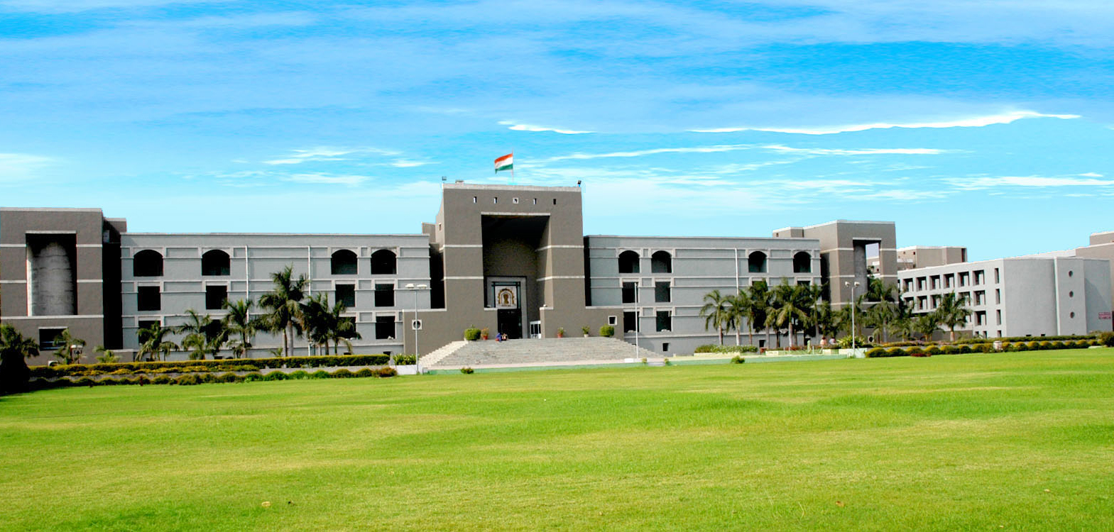 The Gujarat High Court, established in the year 1960, under the Bombay Re-Organization Act. The High Court is housed in a magnificent structure located at Sola Road, Ahmedabad.